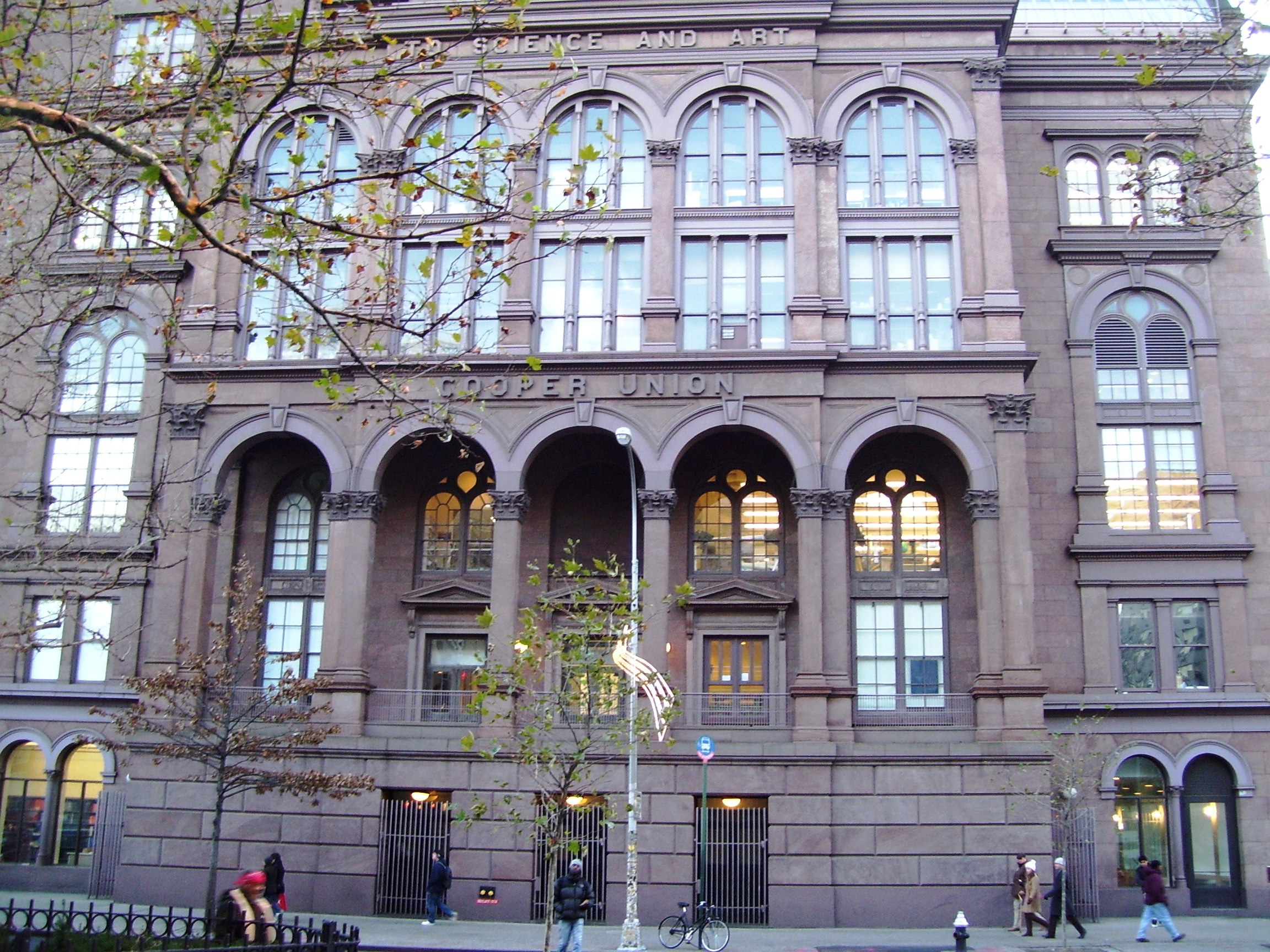 The front of the Cooper Union Foundation Building on Astor Place